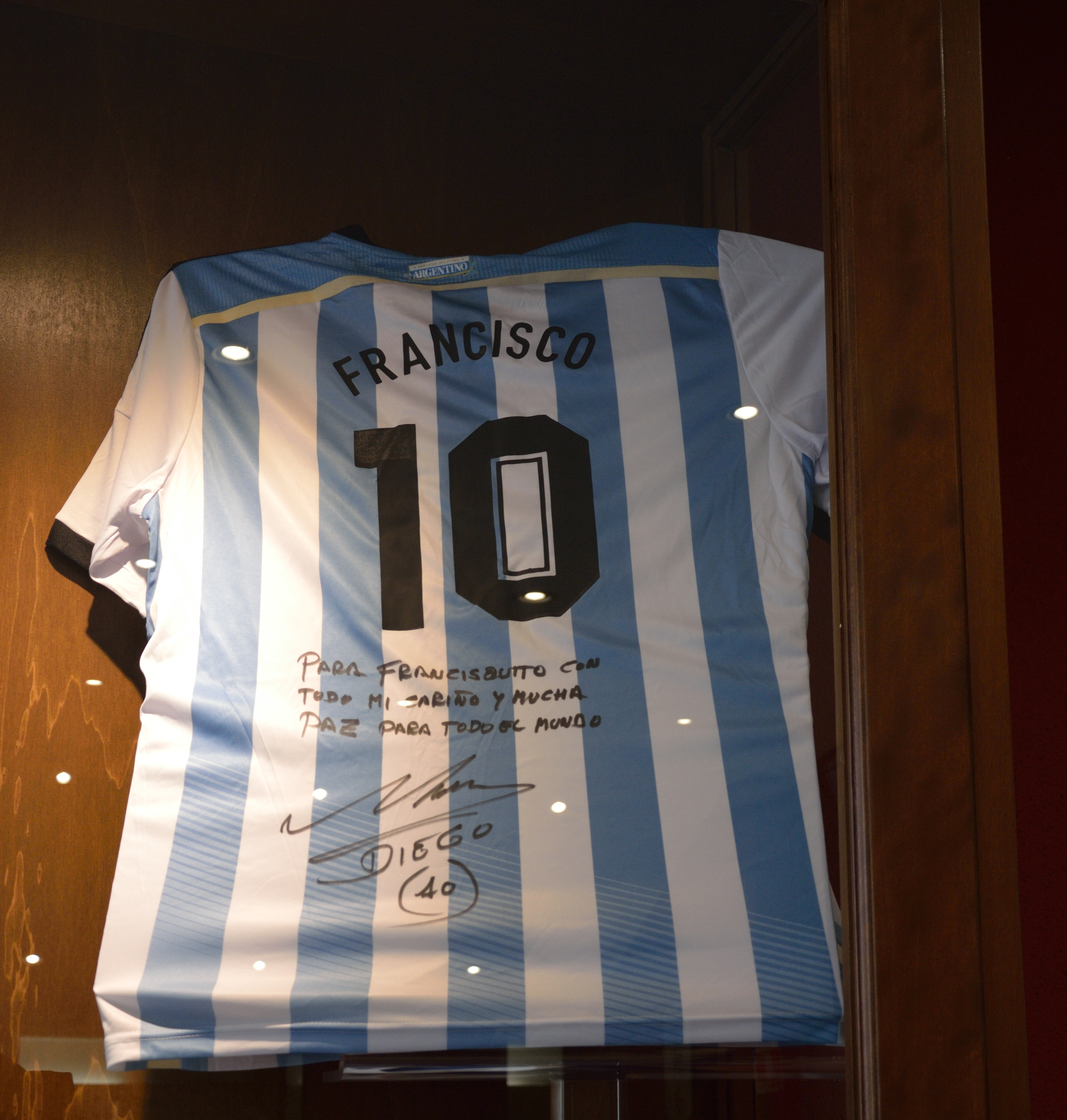 Maradonas's jersey donated to Pope Francis